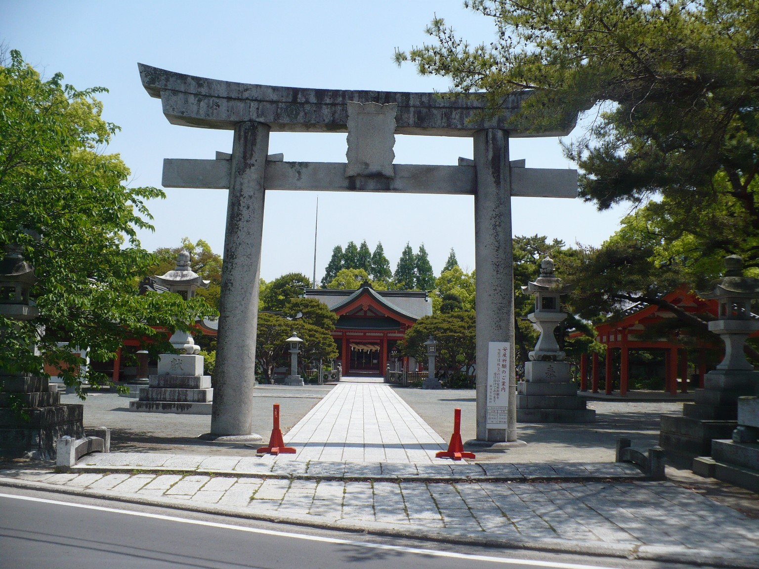 Furogu shrine, seen from front of Torii. Okawa city Fukuoka prefecture Japan